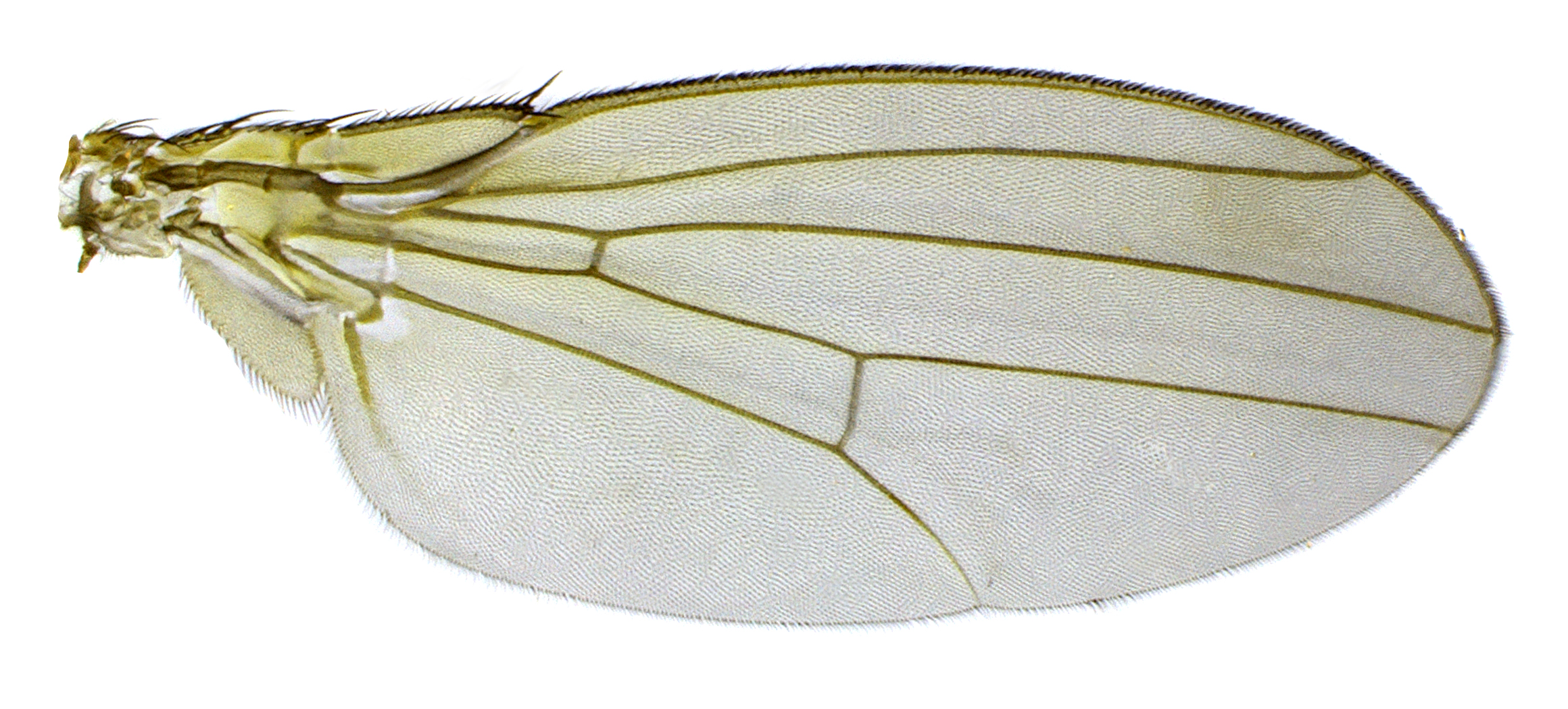 female, wing. Drosophila suzukii